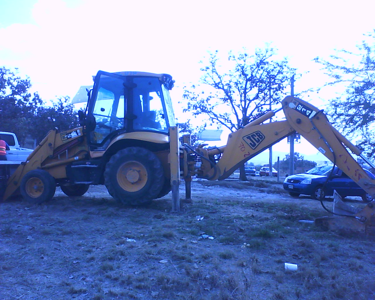 Entrance of the Nixticuil Forest occupied by machinery (a JCB 214 backhoe loader) belonging to SIAPA